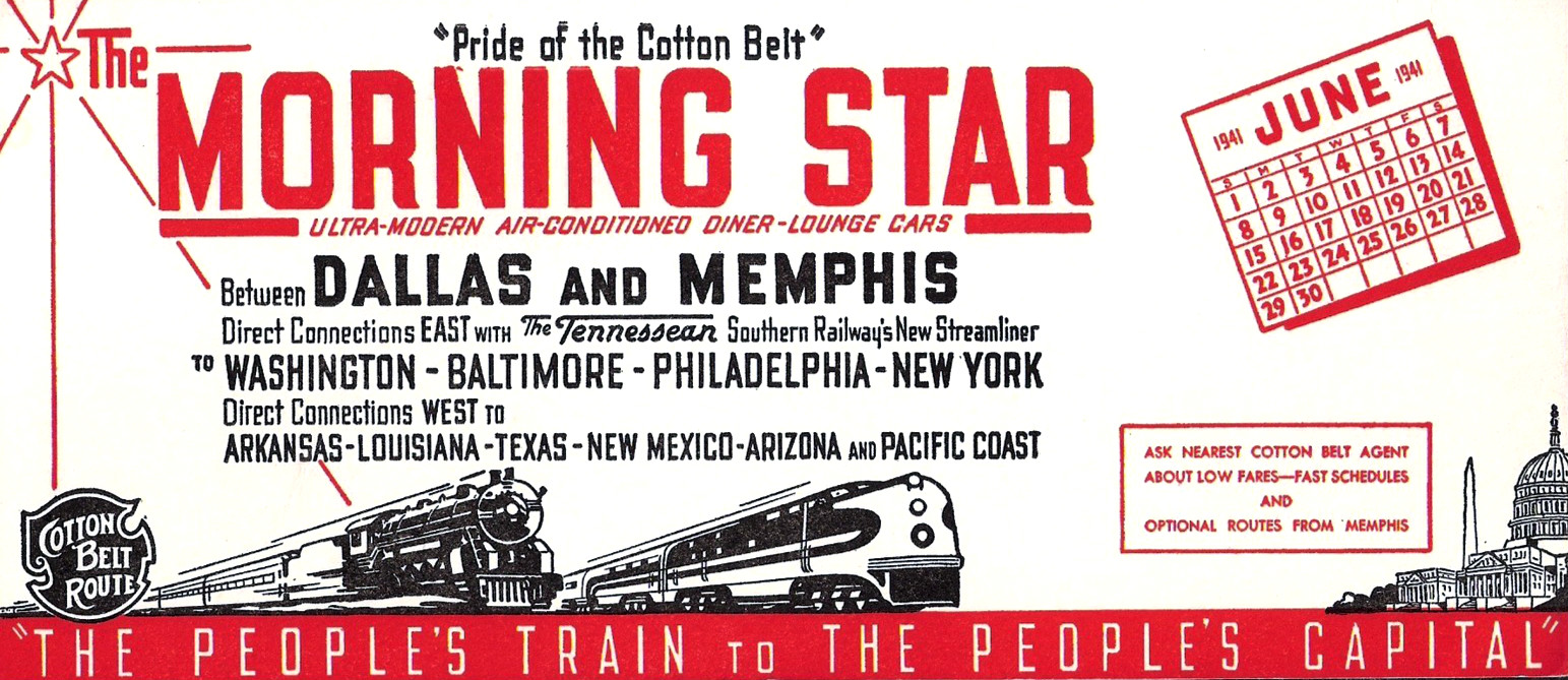 Advertising blotter for the Cotton Belt Line's Morning Star train which traveled between St. Louis and Dallas with connections to Memphis. The connections to Memphis were added in 1941.